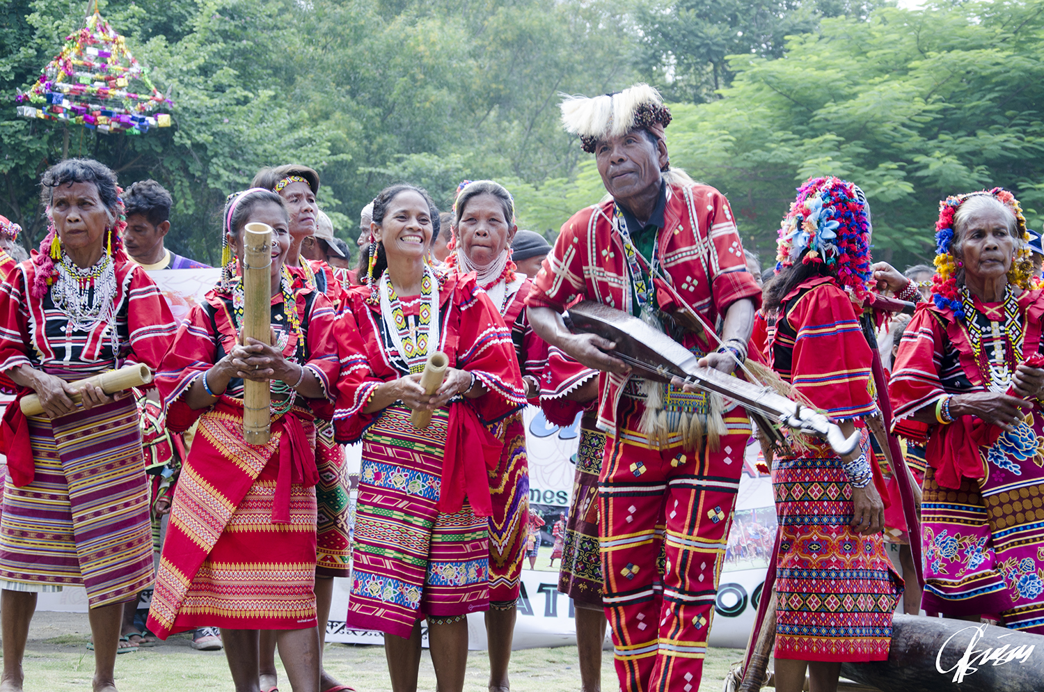 Kadayawan Festival 2016 Photos (21) Kadayawan Festival 2016 Photos - Kadayawan Festival in celebrated in Davao City every 3rd week of August. Derived from a local friendly greeting "Madayaw" meaning good or beautiful, the Kadayawan Festival is not only meant to celebrate good harvest but also to recognize and reiterate respect and love to the LUMADS in Davao.